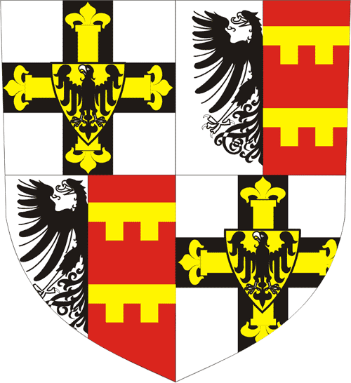 Teutonic Order - Coat of Arms of the Grandmaster Konrad und Siegfried von Feuchtwangen